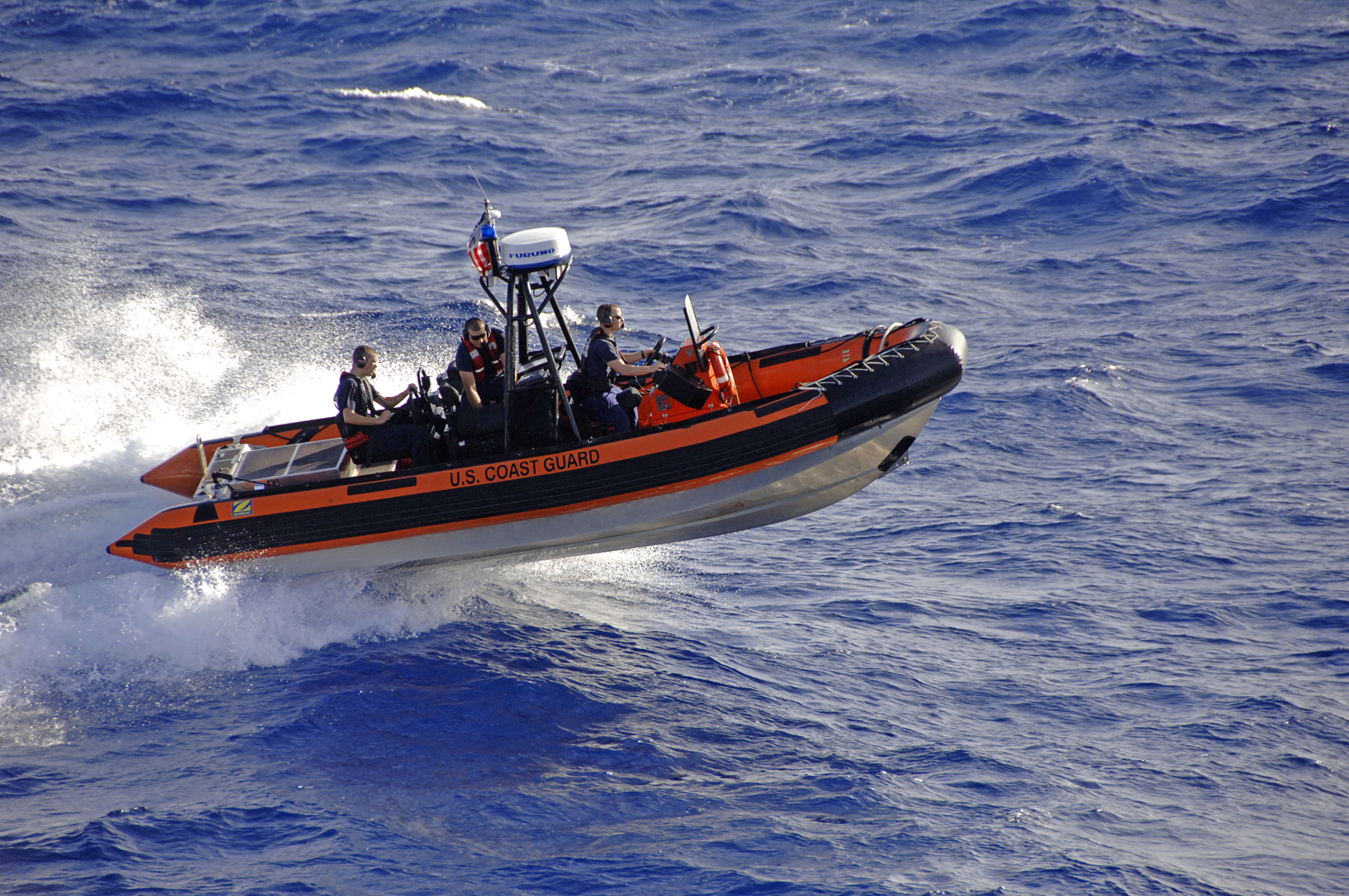 Petty Officer 2nd Class Dale Veverka, a boatswains mate, Seaman George Degener, and Petty Officer 2nd Class Joshua Post, a machinery technician, conduct maneuvers on the Coast Guard Cutter Northland's "over-the-horizon" small boat during their transit in the Atlantic Ocean to Rio De Janeiro, Brazil, April 9, 2008. The Northland is transiting to Brazil to participate in this years UNITAS exercise, a multinational naval exercise the helps tests the interoperability of U.S. and foreign naval forces. U.S. Coast Guard photo by PA2 Nathan Henise.